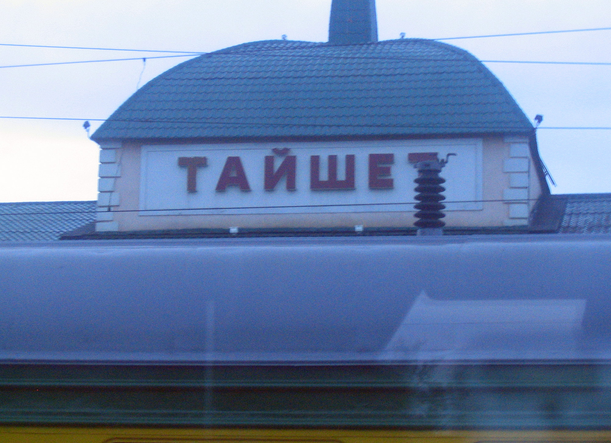 Tayshet station on the trans-Siberian railway in Tayshet, Russia. Taken 7/06 by me, released into public domain.